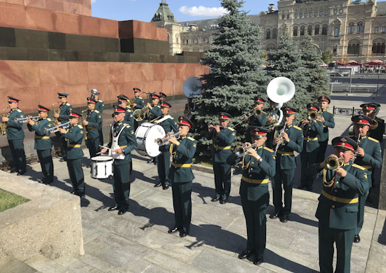 Военный оркестр (Московского гарнизона)